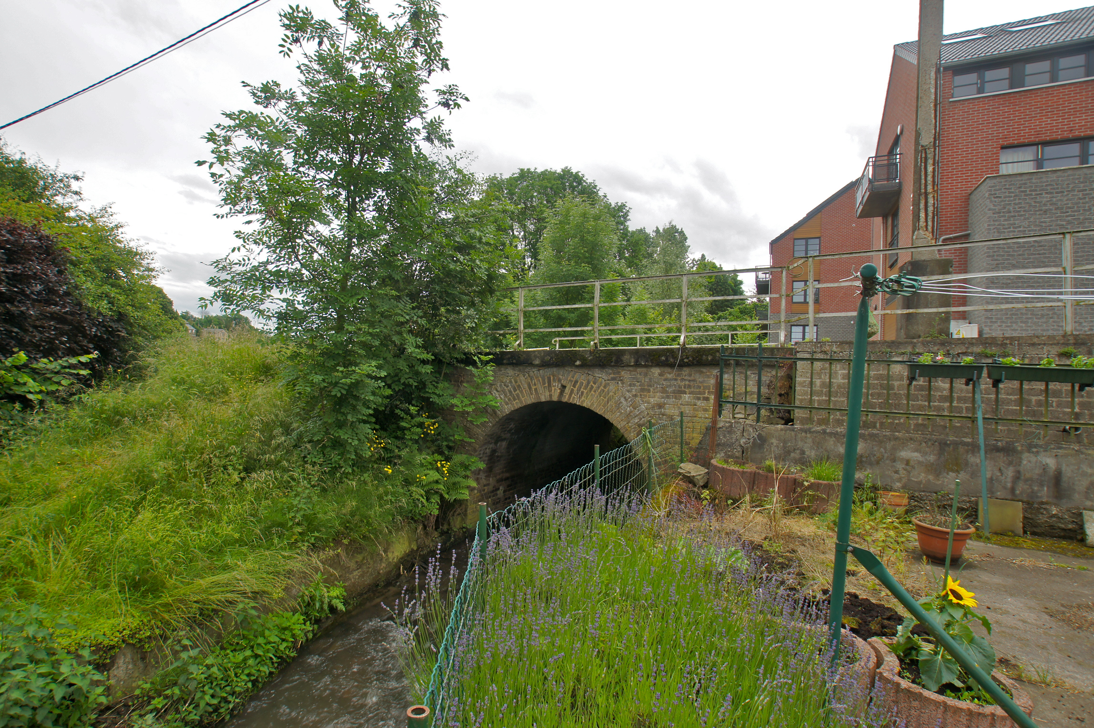 Blegny (Saint-Remy), Belgium: Bridge over the river Bolland